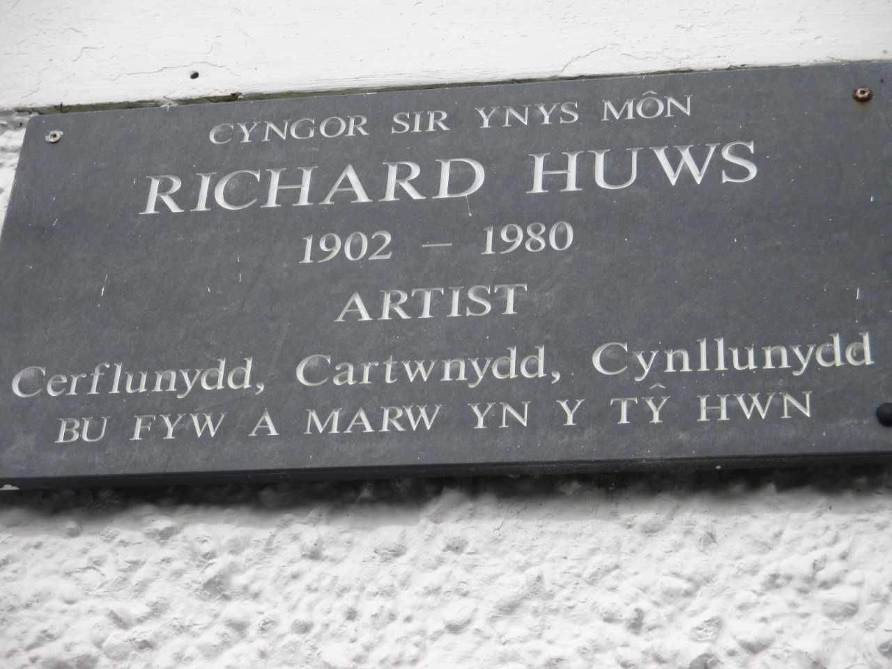 Richard Huws's plaque